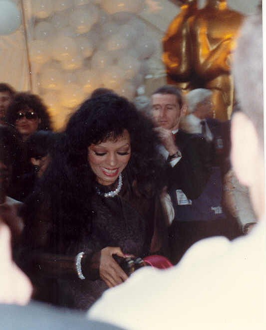 Diana Ross at the 62nd Academy Awards